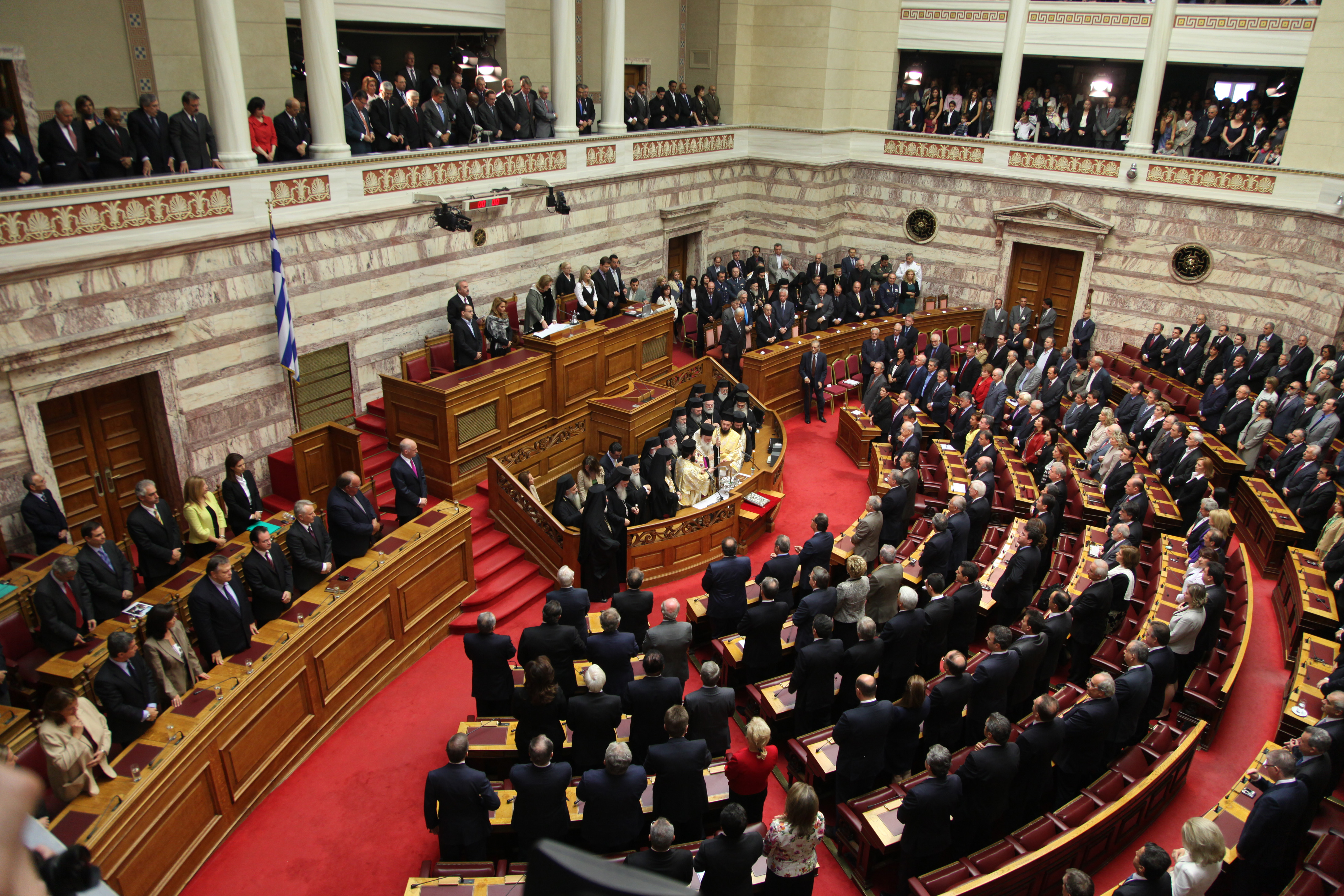 The swearing-in ceremony of the new members of the Hellenic Parliament that emerged from the October 4 general elections.